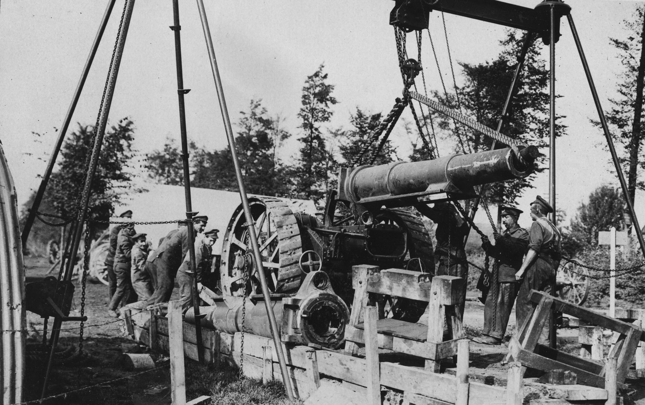 IWM caption : THE THIRD BATTLE OF YPRES (PASSCHENDAELE) 31 JULY - 10 NOVEMBER 1917 Description: Battle of Polygon Wood 26 September - 3 October: A new barrel is lowered into position on an 8 inch howitzer by the Army Ordnance Corps. Comment : This is an 8 inch howitzer utilizing bored-out and shortended 6 inch naval gun barrel. Probably a BL 8 inch Howitzer Mk V.